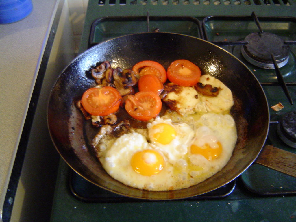 2nd breakfast